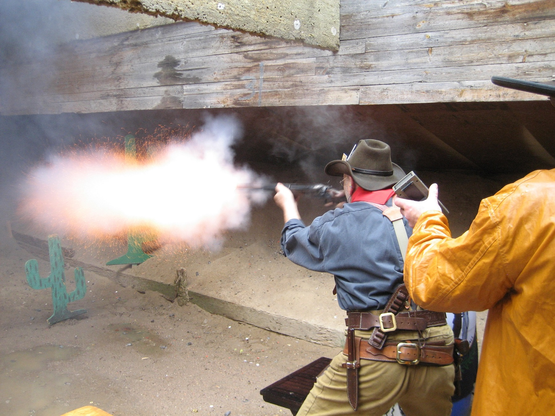 Cowboy Action Shooting (CAS) Scene, Black Powder Shooter and Range Officer (RO)